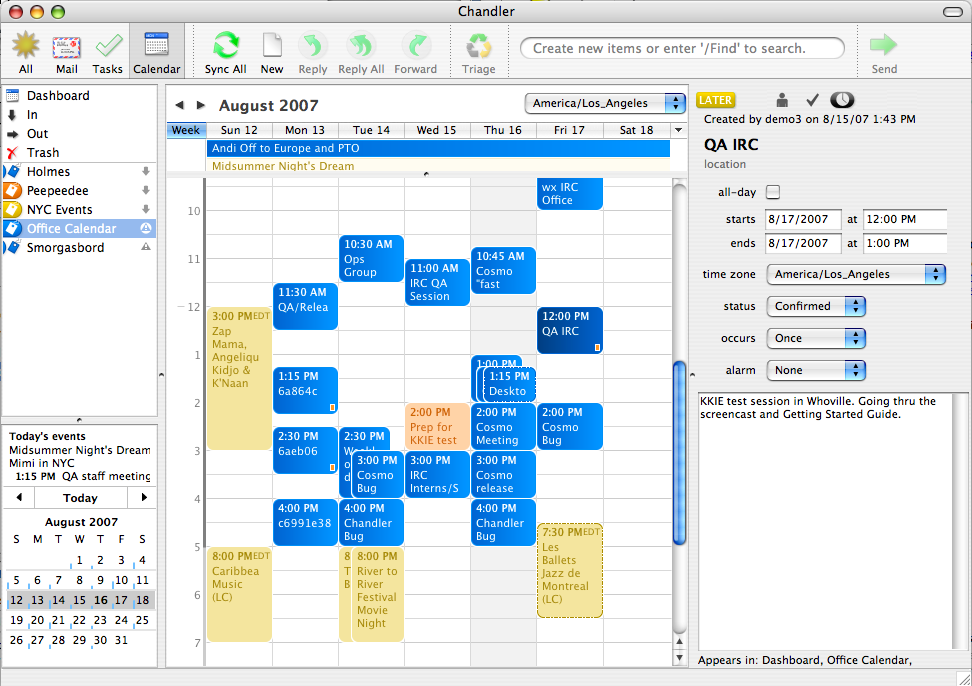 Chandler screenshot from (original URL for image is